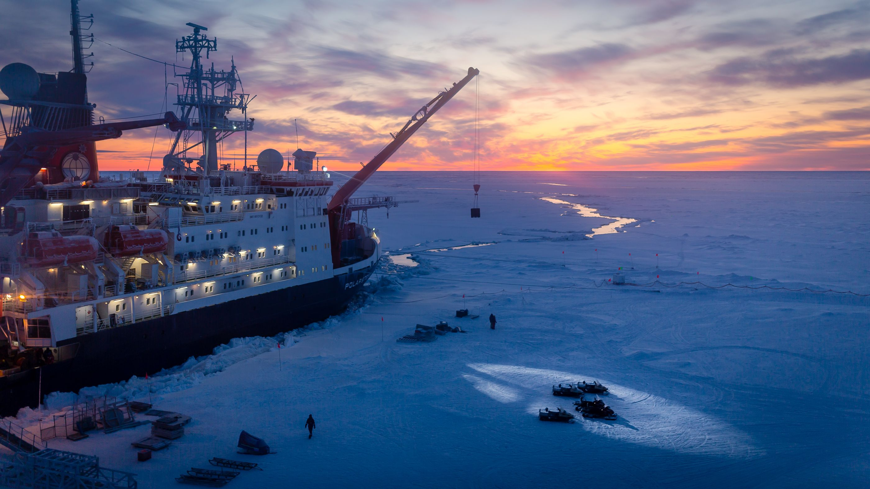 Setup of the MOSAiC ice camp in front of RV Polarstern during leg 1 of the expedition (autumn 2019)